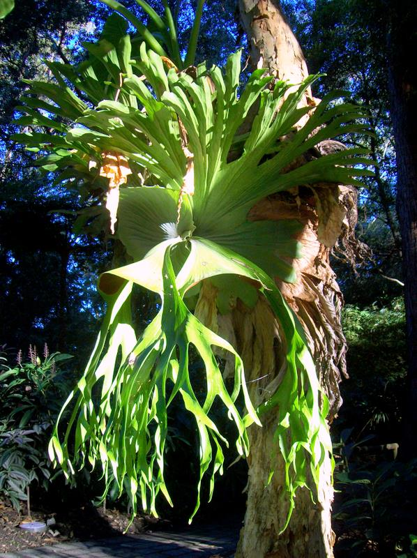 Staghorn Fern, Platycerium superbum, Coffs Harbour Botanic Gardens